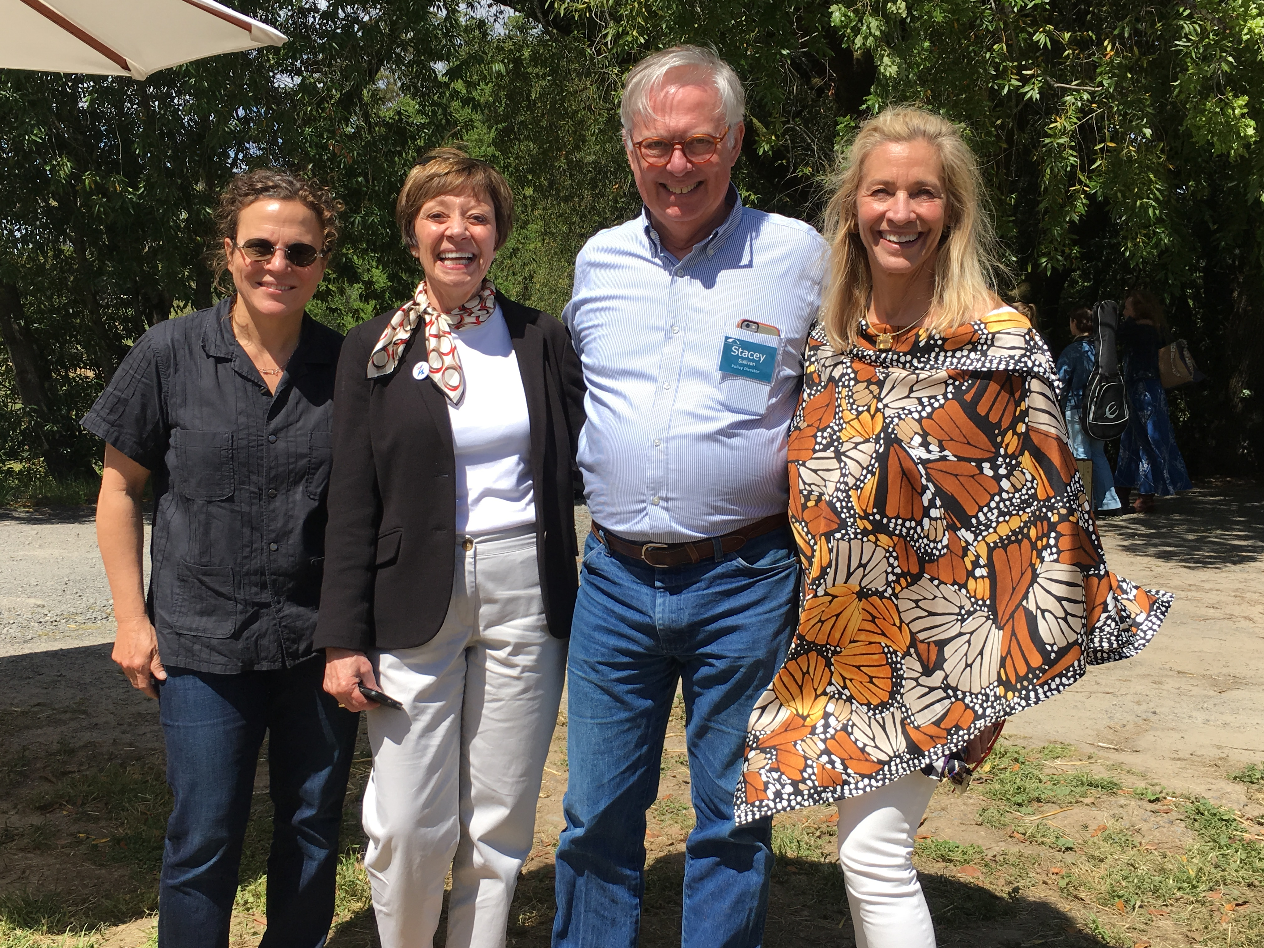 Chef Traci Des Jardins, California Department of Food & Agriculture Secretary Karen Ross, J. Stacey Sullivan, Policy Director of Sustainable Conservation, and Joy Sterling, COO of Iron Horse Vineyards at Iron Horse's annual Earth Day celebration in 2017.